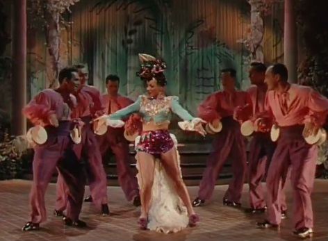 Carmen Miranda in Something for the Boys - trailer (cropped screenshot)